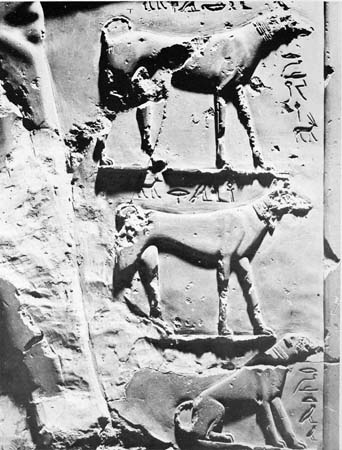 Dogs of King Antef from ancient Egyption relief from 2323 BC. to 2134 BC. Original items at Egyptian Museum, Cairo.